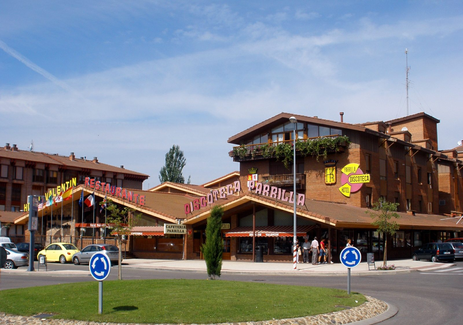 Hotel-Restaurante Valentín y Discoteca La Parrilla, en Aguilar de Campoo (Palencia, Castilla y León, España)